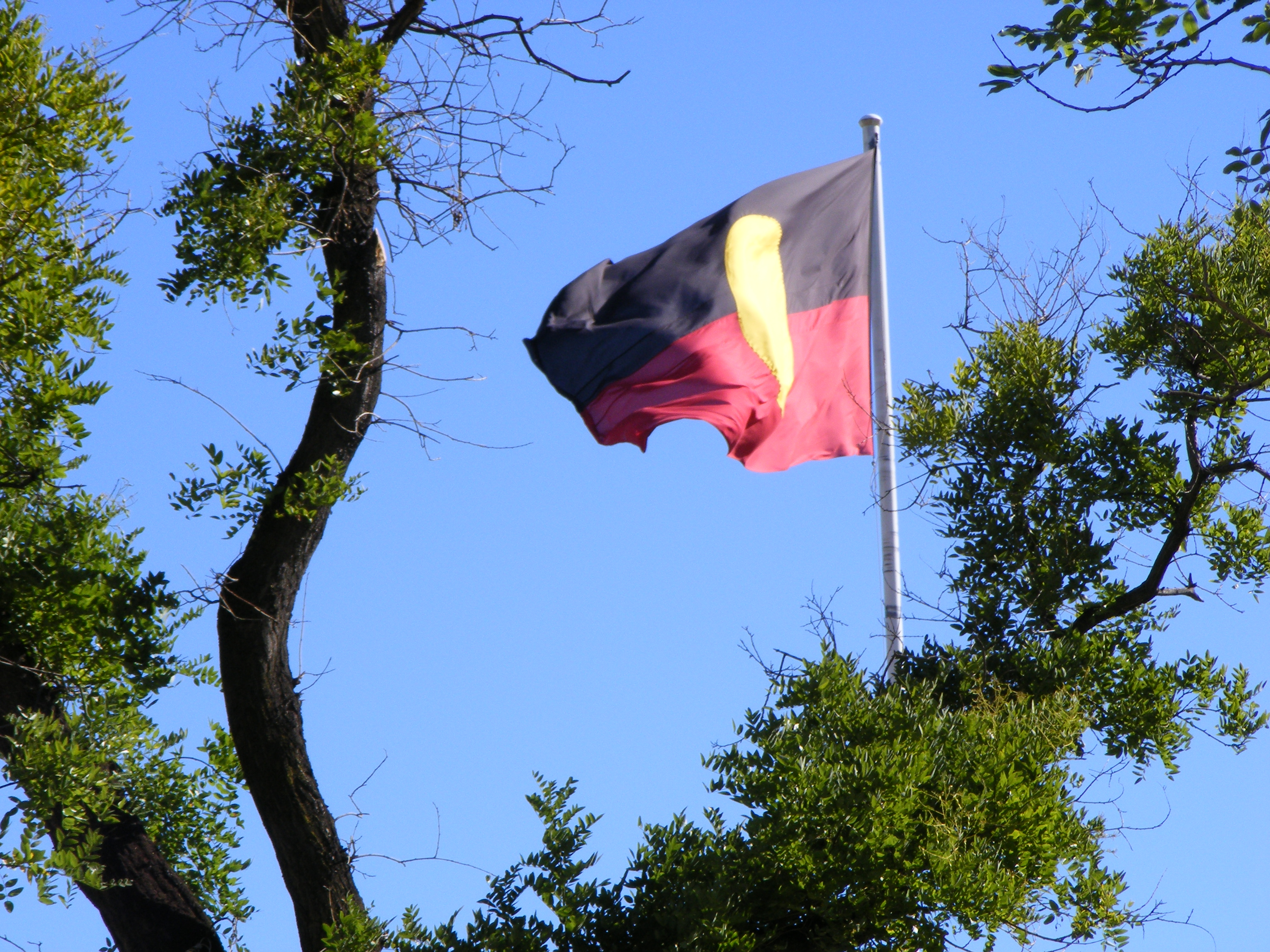 The Australian aboriginal flag flying in Victoria Square, Adelaide, South Australia